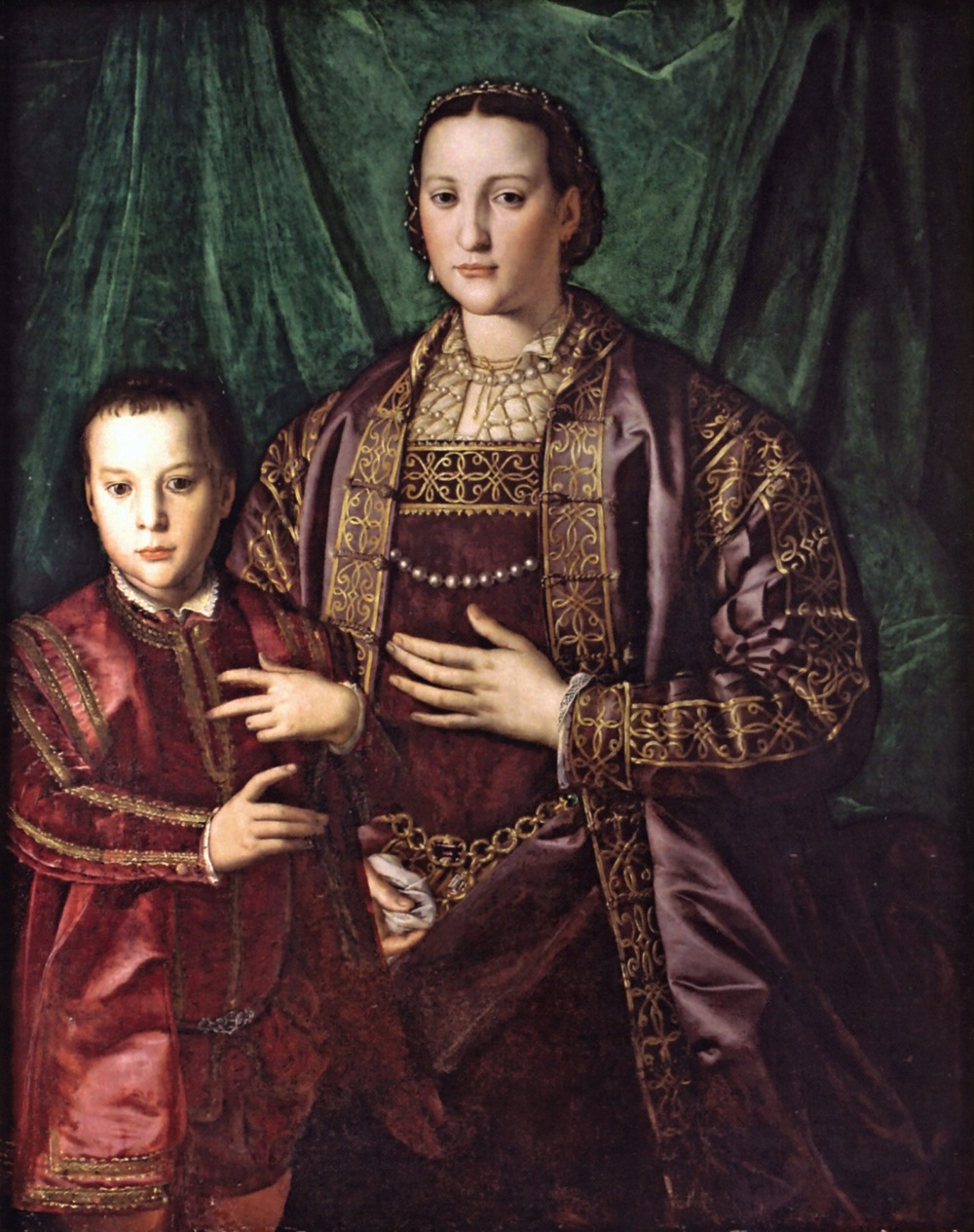 Eleonora di Toledo, Duchess of Florence, with her son Francesco, heir to the throne and future Grand Duke Francesco I. This portrait is similar but less famous than the Uffizi portrait where Eleonora is with her son Giovanni.